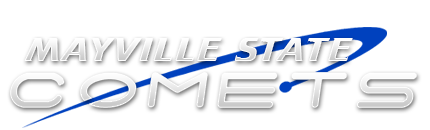 Comets Logo